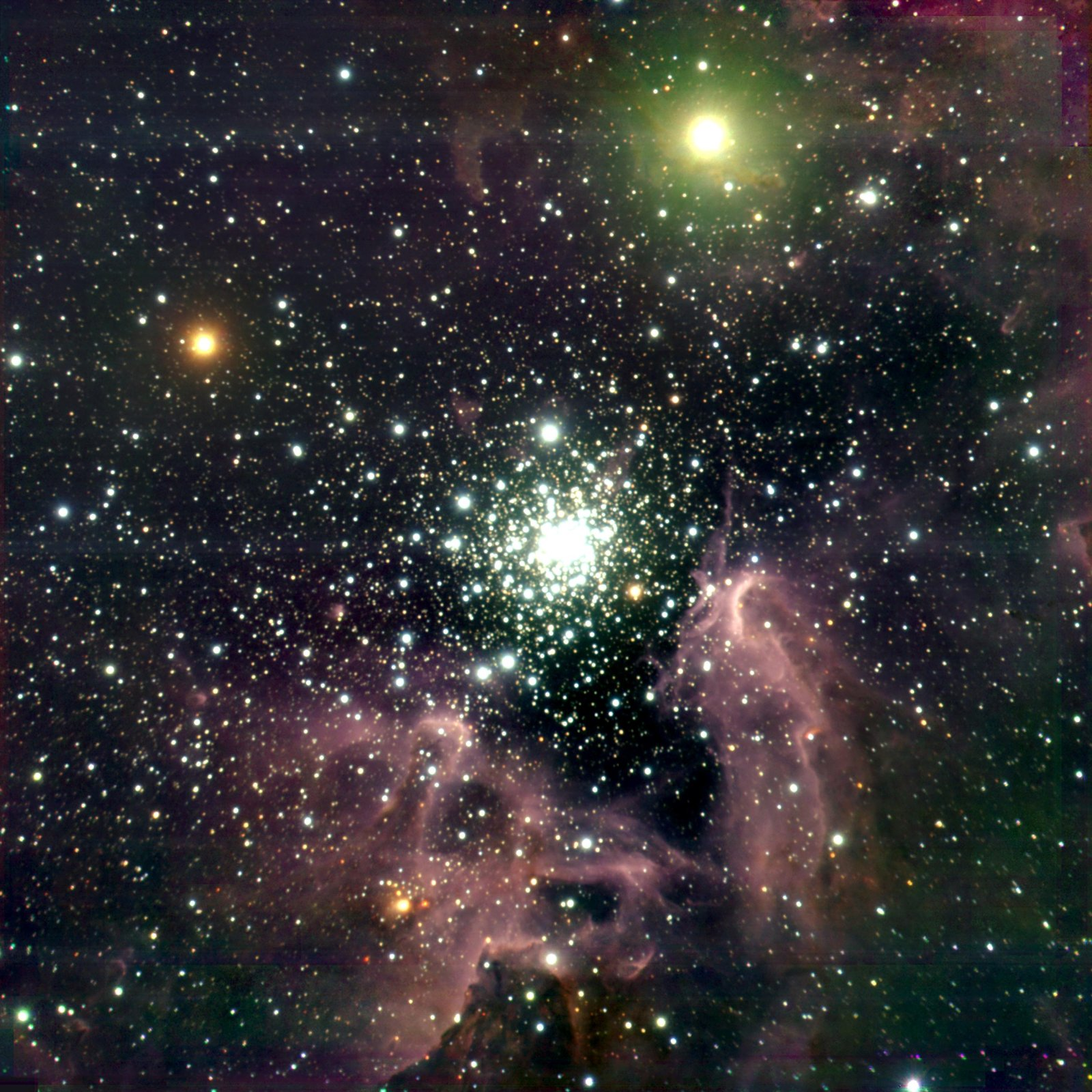 Image of the NGC 3603 region were obtained in three near-IR filter bands (Js, H and Ks) with the ISAAC instrument at the ANTU telescope. NGC 3603 is located in the Carina spiral arm in the Milky Way galaxy at a distance of about 20,000 light-years (6-7 kpc). It is the only massive, galactic "HII-region" (so denoted by astronomers because part of its hydrogen is ionized) in which a central cluster of strongly UV-radiating stars of types "O" and "B" that ionize the nebula can be studied at visual and near-infrared wavelengths. This is because the line-of-sight is reasonably free of dust in this direction; the dimming in near-infrared radiation due to intervening matter between the nebula and us is only about a factor of 2 (contrary to 80 in visible light). The total mass of the hot O- and B-stars in NGC 3603 is over 2000 solar masses. Together, the more than fifty heavy and bright O-stars in NGC 3603 have about 100 times the ionizing power of the well-known Trapezium cluster in the Orion Nebula. In fact, the star cluster in NGC 3603 is in many respects very similar to the core of the large, ionizing cluster in the approximately eight times more distant Tarantula Nebula in the LMC.A most important conclusion of this study is that there are lots of sub-solar mass stars in NGC 3603 , i.e., contrary to several theoretical predictions, these low-mass stars do form in violent starbursts !The overall age of stars in the contraction phase that are located in the innermost region of NGC 3603 was found to be 300 000 - 1 000 000 years. The counts clearly show that this cluster is well populated in sub-solar mass stars.